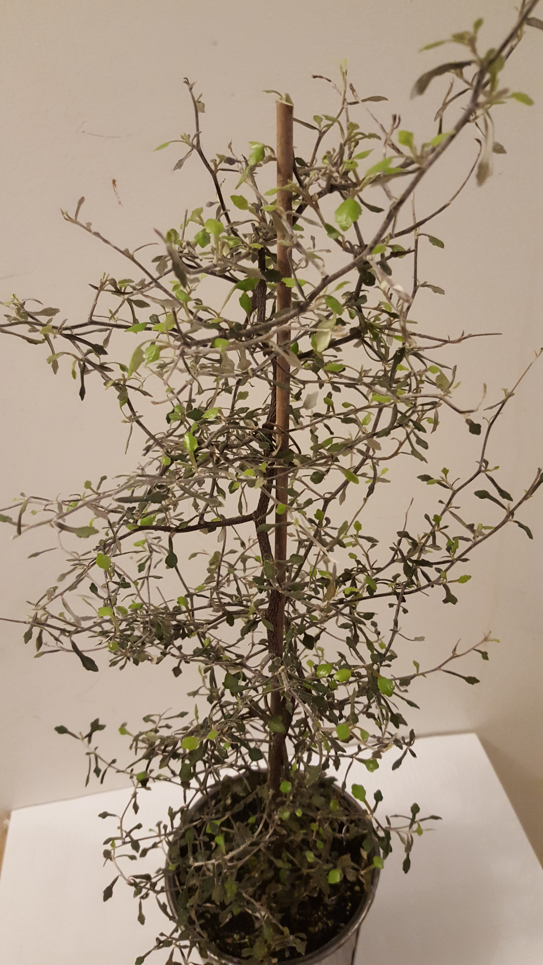 Corokia cotoneaster from a garden center, potted to be grown as a house plant. This purchase is from a nursery near Copenhagen, Denmark, where the plant is a popular houseplant